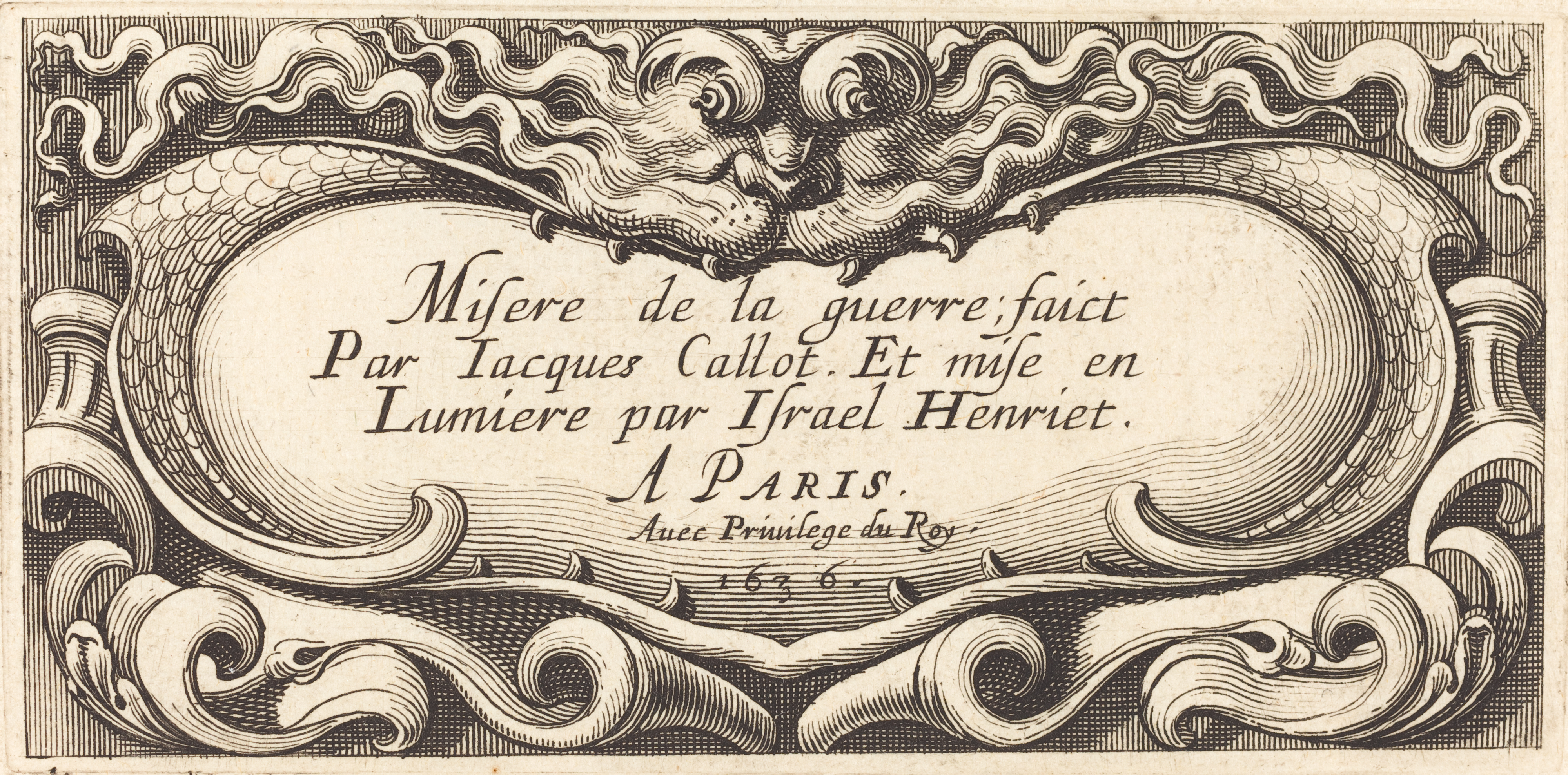 Abraham Bosse (French, 1602 - 1676 ), Title Page for Callot's"The Small Miseries of War", 1636, etching, R.L. Baumfeld Collection 1969.15.894